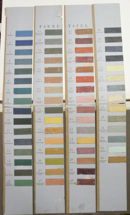 ouvrage de Grautoff , charte de couleur.